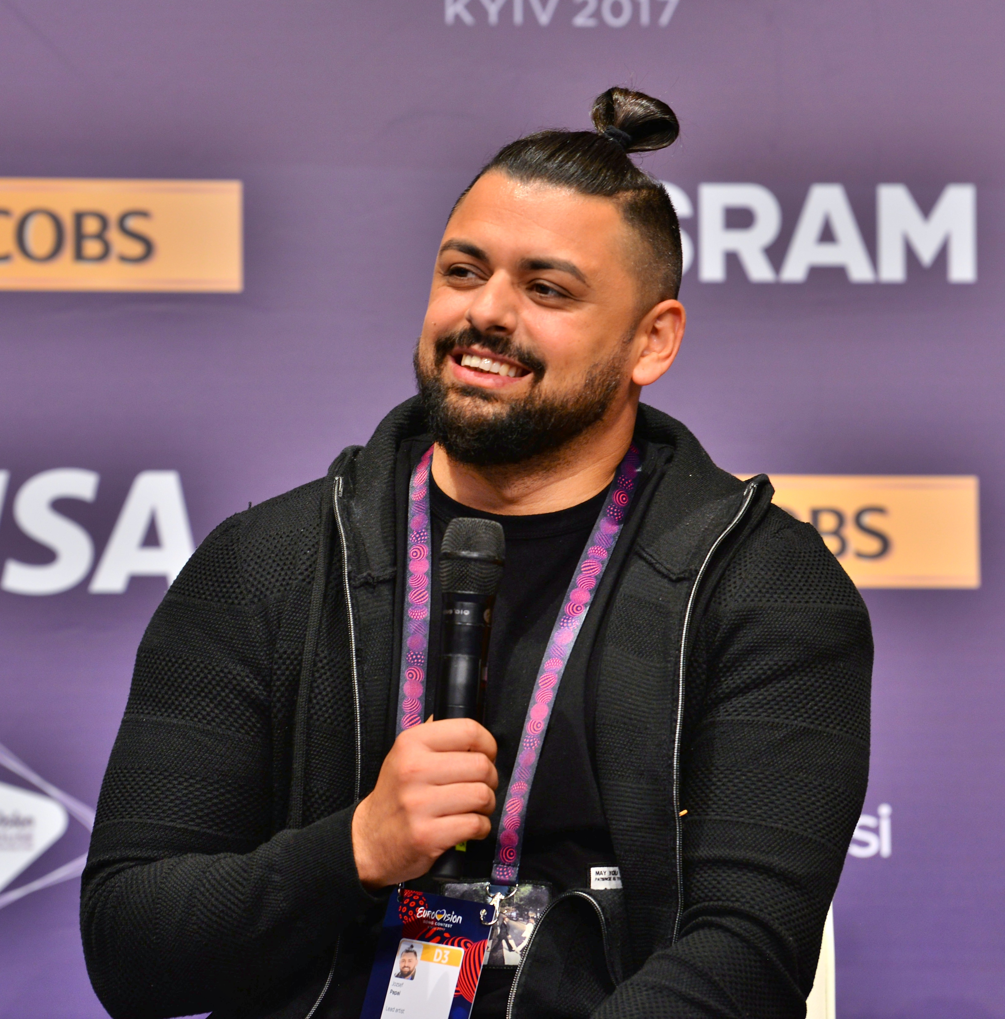 Hungarian roma singer Joci Pápai in Kyiv 2017